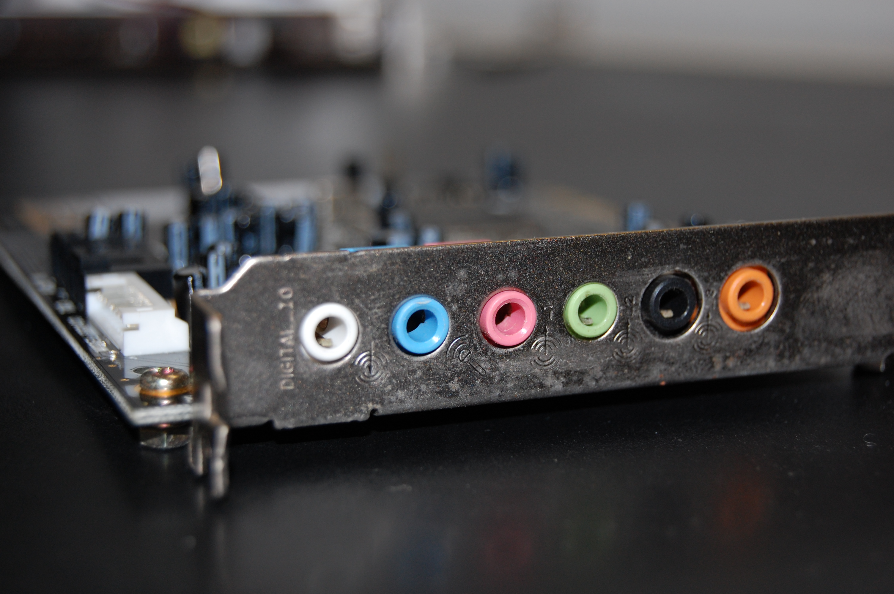 A Creative SoundBlaster Audigy 2 (Model: SB0400) sound card PCI chip.